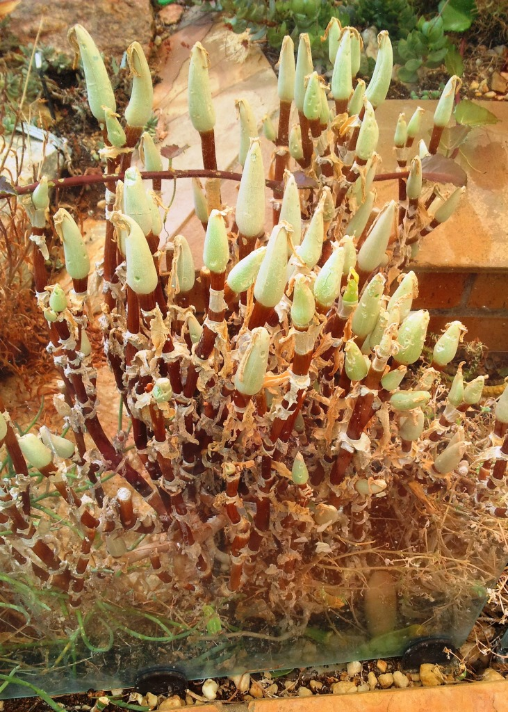 Mitrophyllum mitratum. Boesmanspiel. Kirstenbosch gardens. Cape Town.